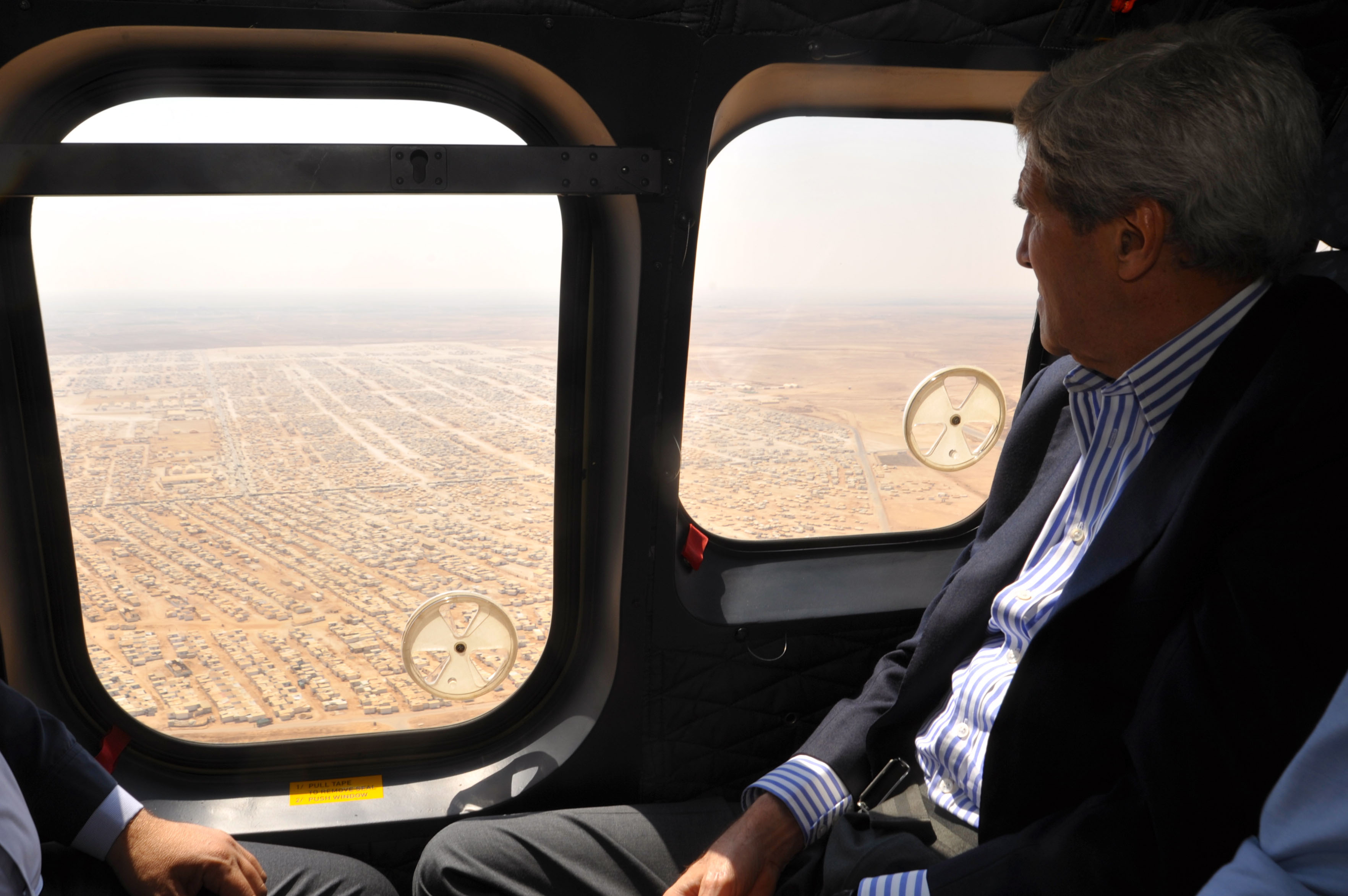 U.S. Secretary of State John Kerry views the Alzatari camp for Syrian refugees as he flies back to Amman, Jordan, from visiting the nearby Za'atri refugee camp on July 18, 2013. [State Department photo/ Public Domain]